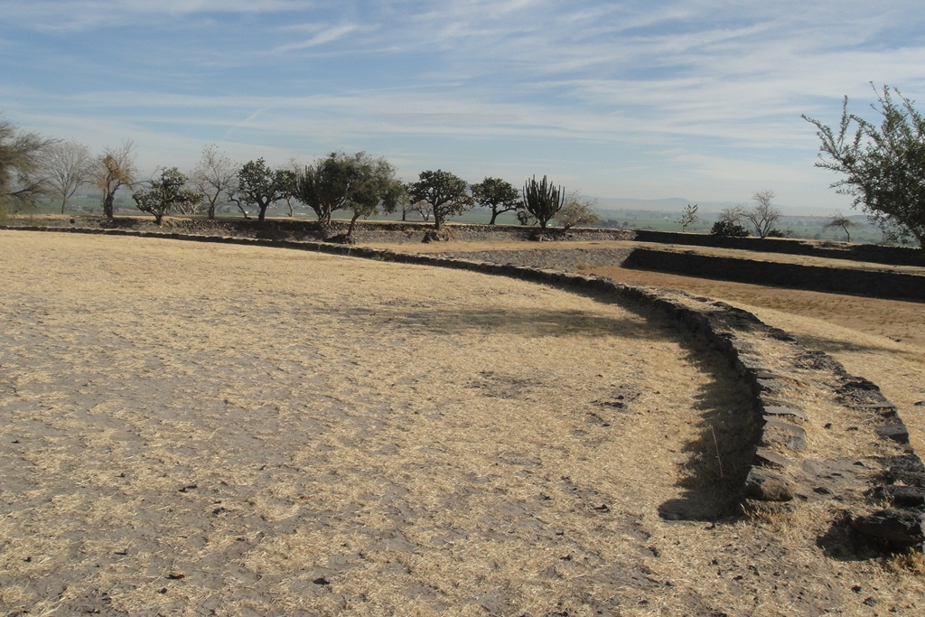 Peralta Main Structure Round basement